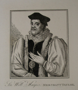 Sir Willm. Harper, Merchant Taylor, portrait of Sir William Harpur (ca. 1496–1574), published by W. Richardson, Castle Street, Leicester Square, [London] 1795.